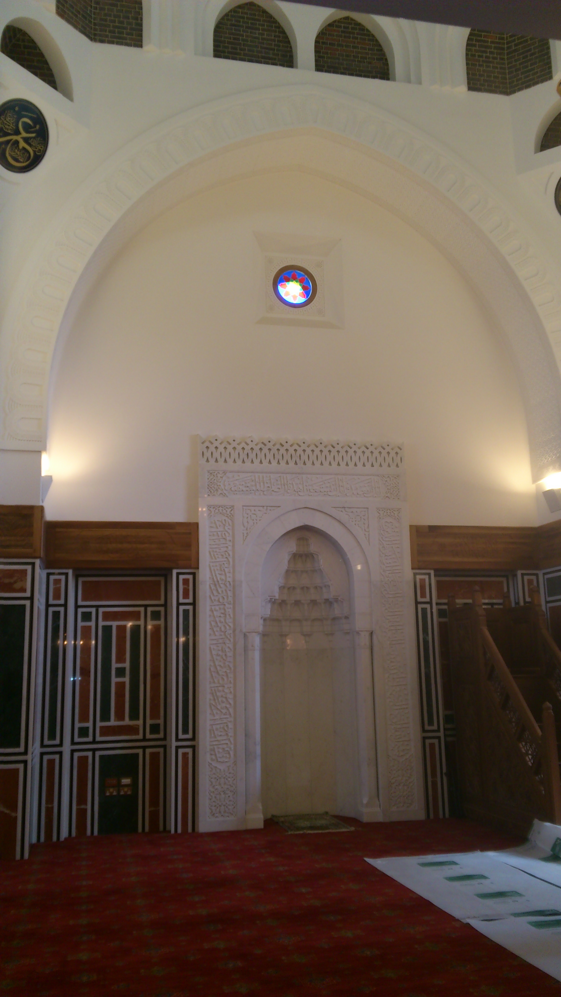 The new Islamic Studies Centre in Oxford